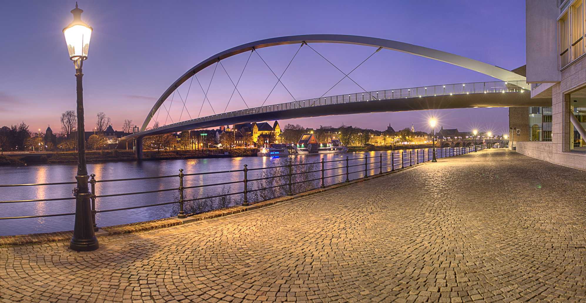 "Hoge brug" (engl: high bridge) in Maastricht.